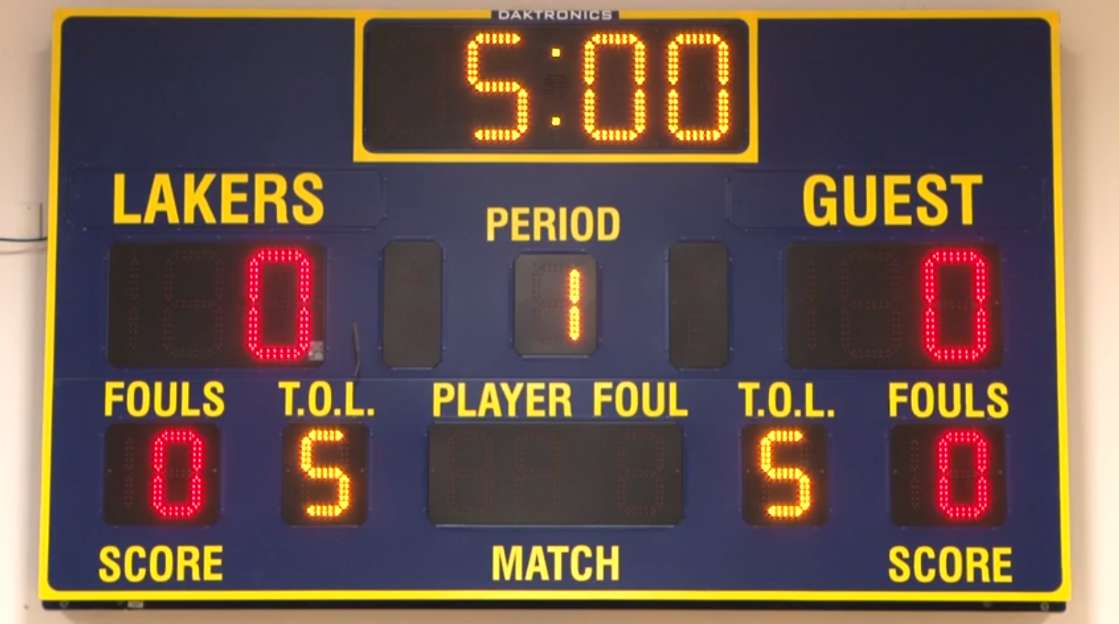 A Daktronics Scoreboard, with a blue background and gold lettering.